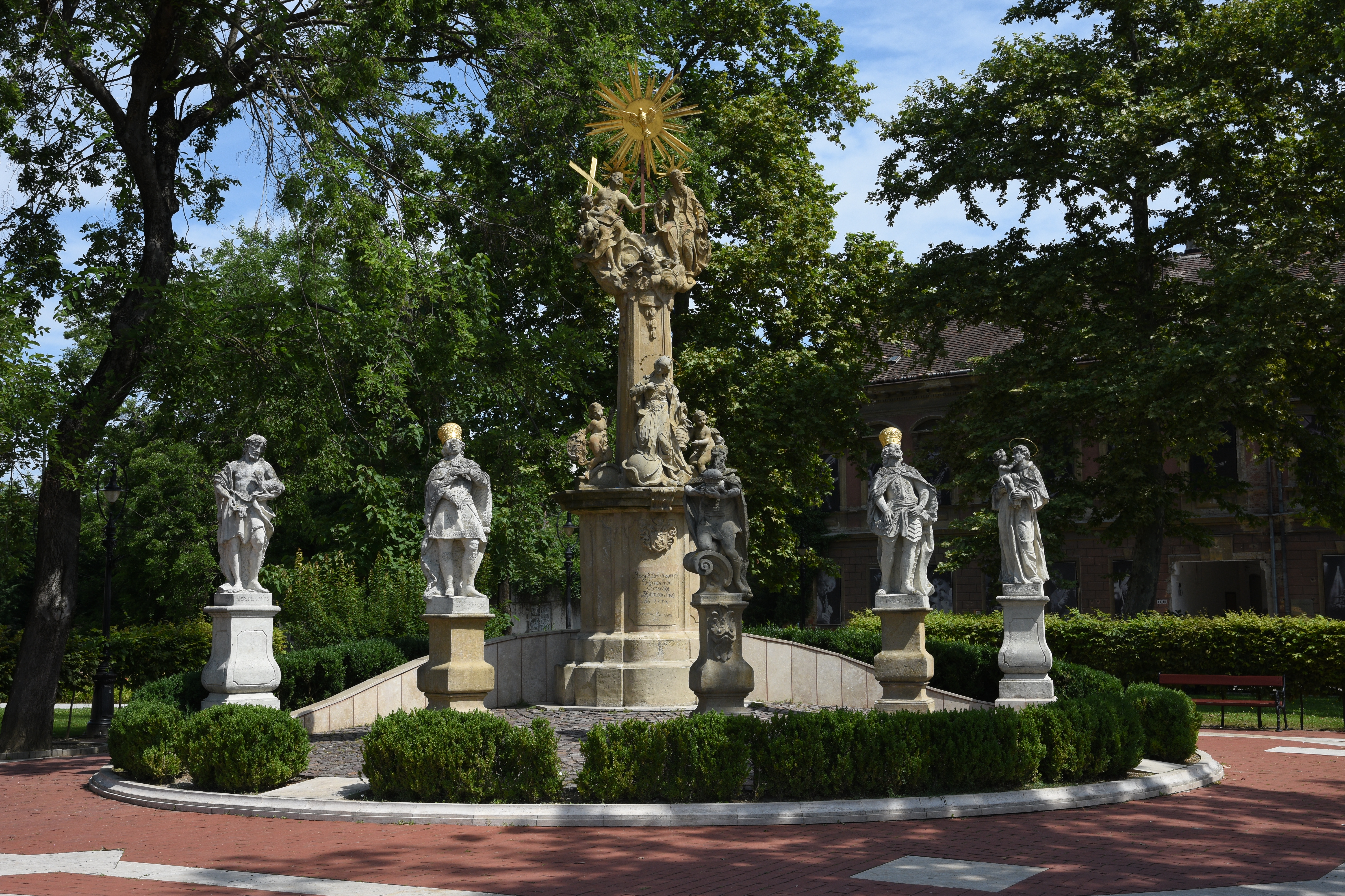 Holy Trinity Column in Nagykanizsa